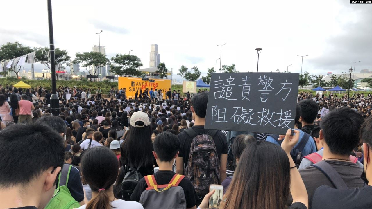 Thousands of medical professionals and students joined the 2 August medical professionals rally in Edinburgh Place, Central.